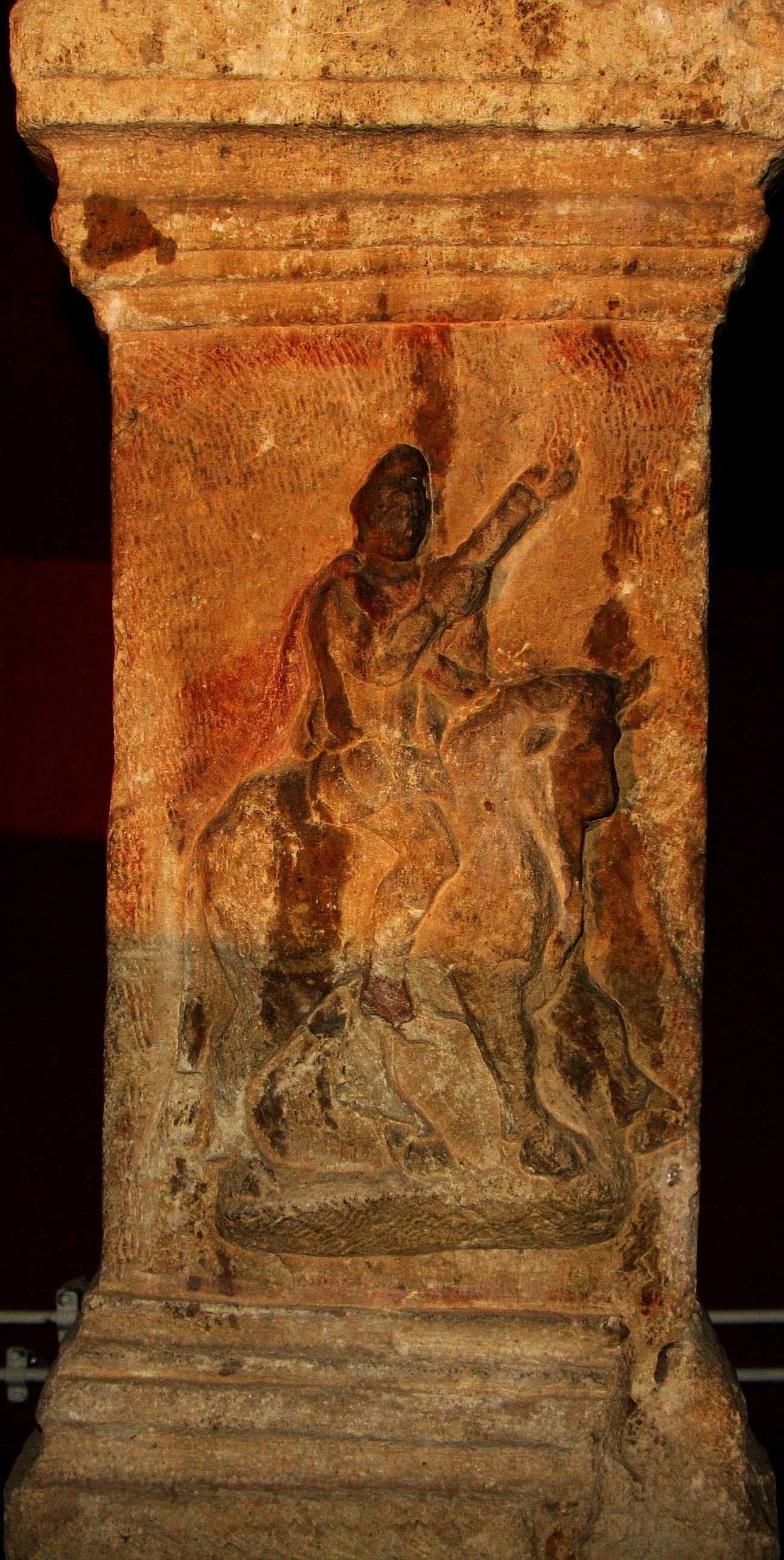 Cautes (Mithraic torchbearer) riding bull, funeral stele in Sibiu Museum